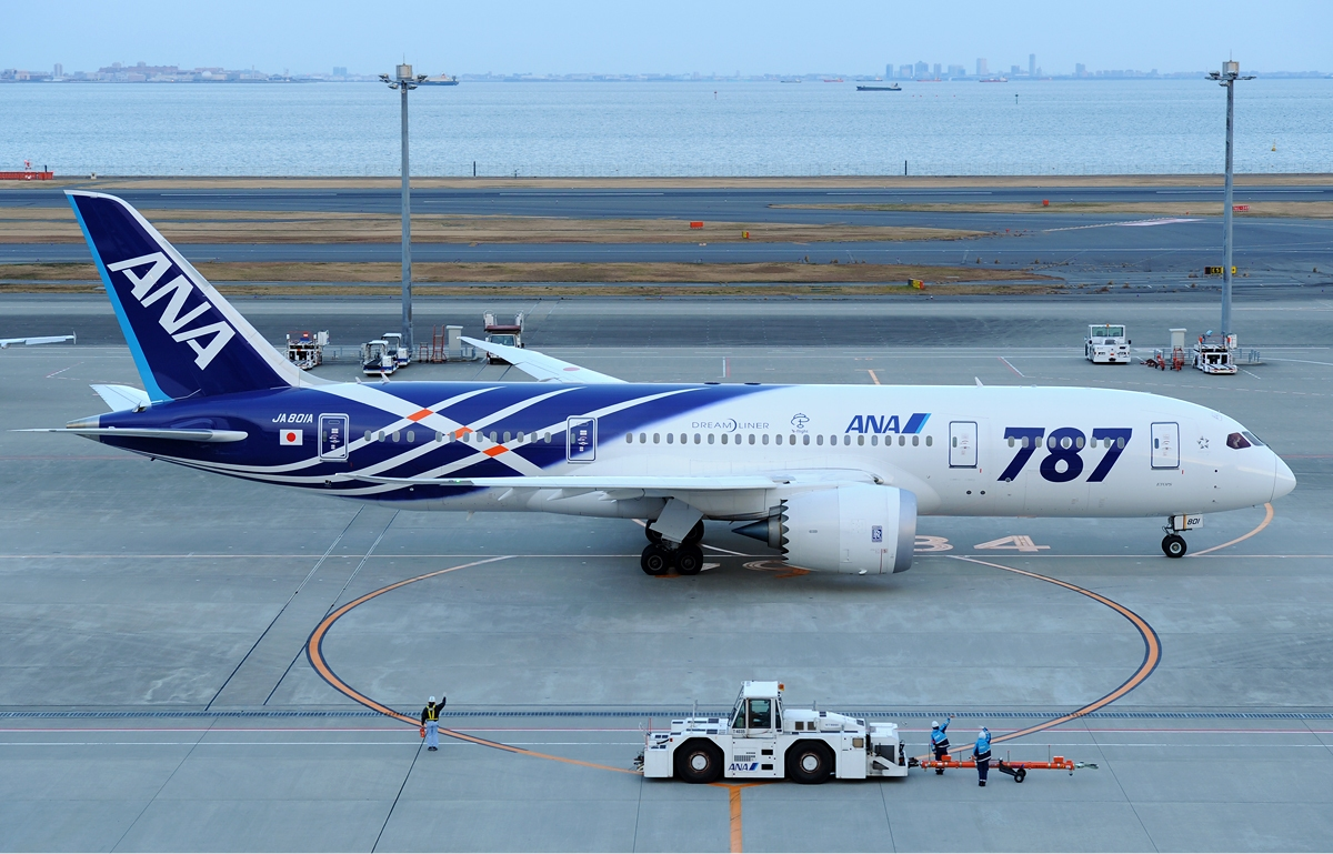 All Nippon Airways Boeing 787-881 at Haneda Airport